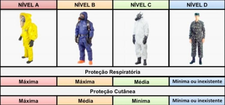 Different protection suits wore by specialized troops of biological, nuclear, chemical and radiological defense of the Brazilian Military.